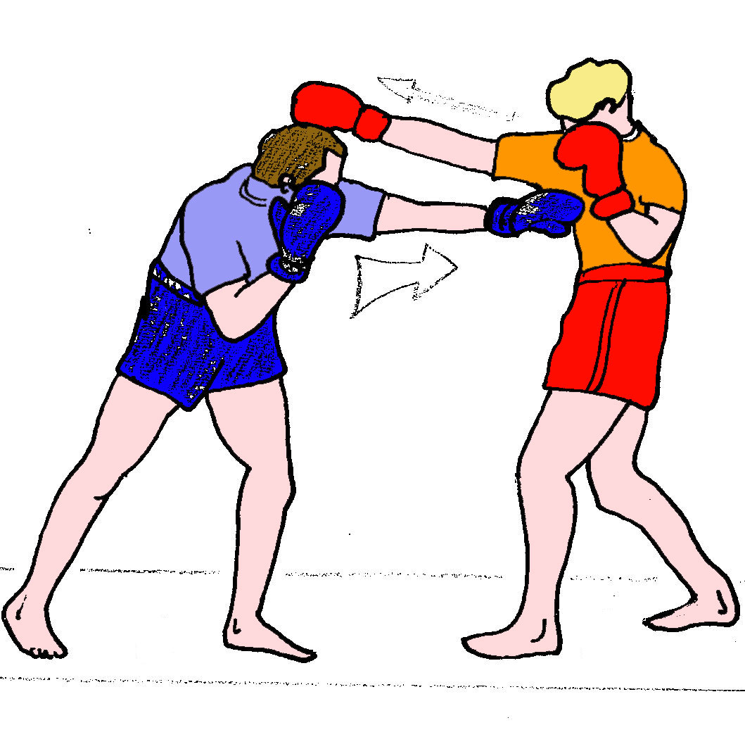 Counter-punch